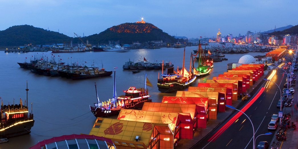 Evening view over Zhoushan.